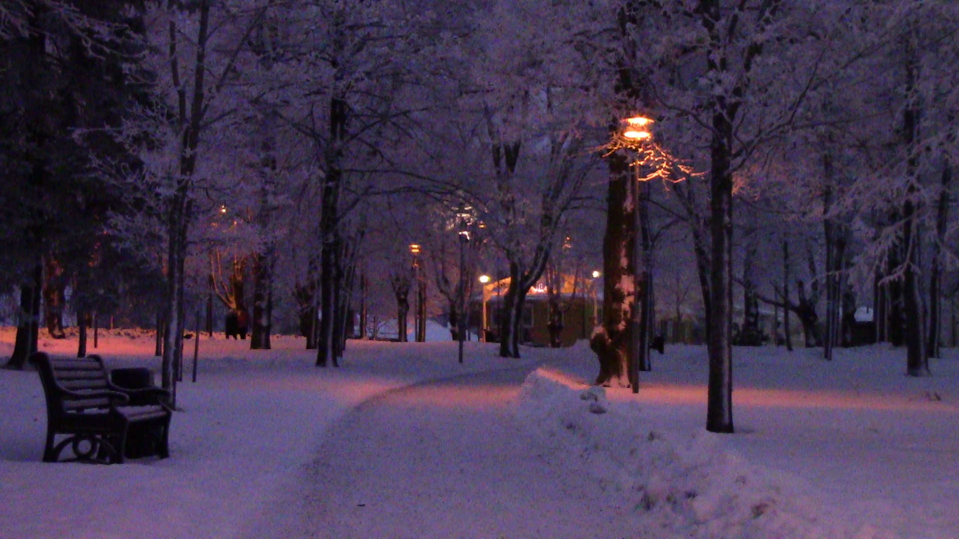 Winter wonderland at Turkinpuisto park in Ikaalinen, Finland.